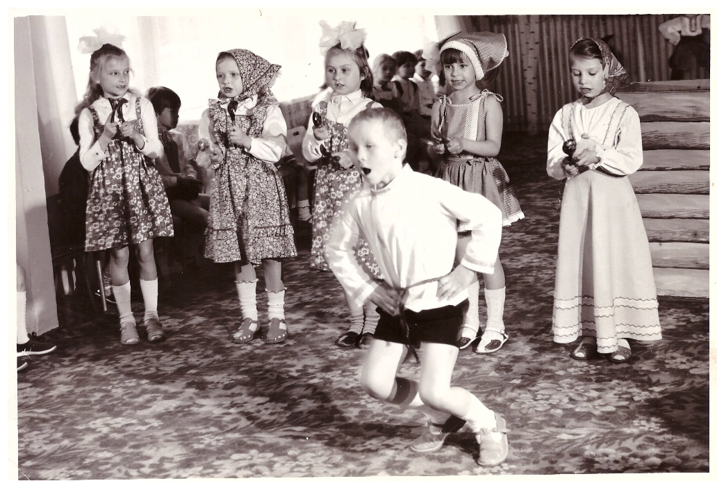 Little russian boy dancing Kazatchok at Khabarovsk